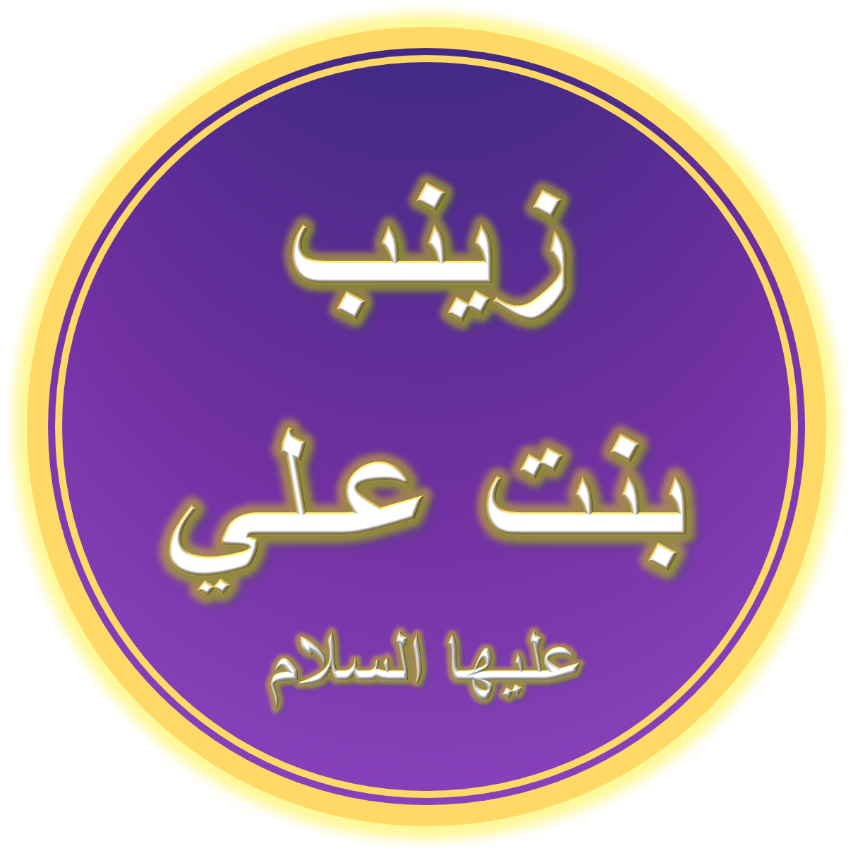 Arabic text with the name of Zaynab bint Ali